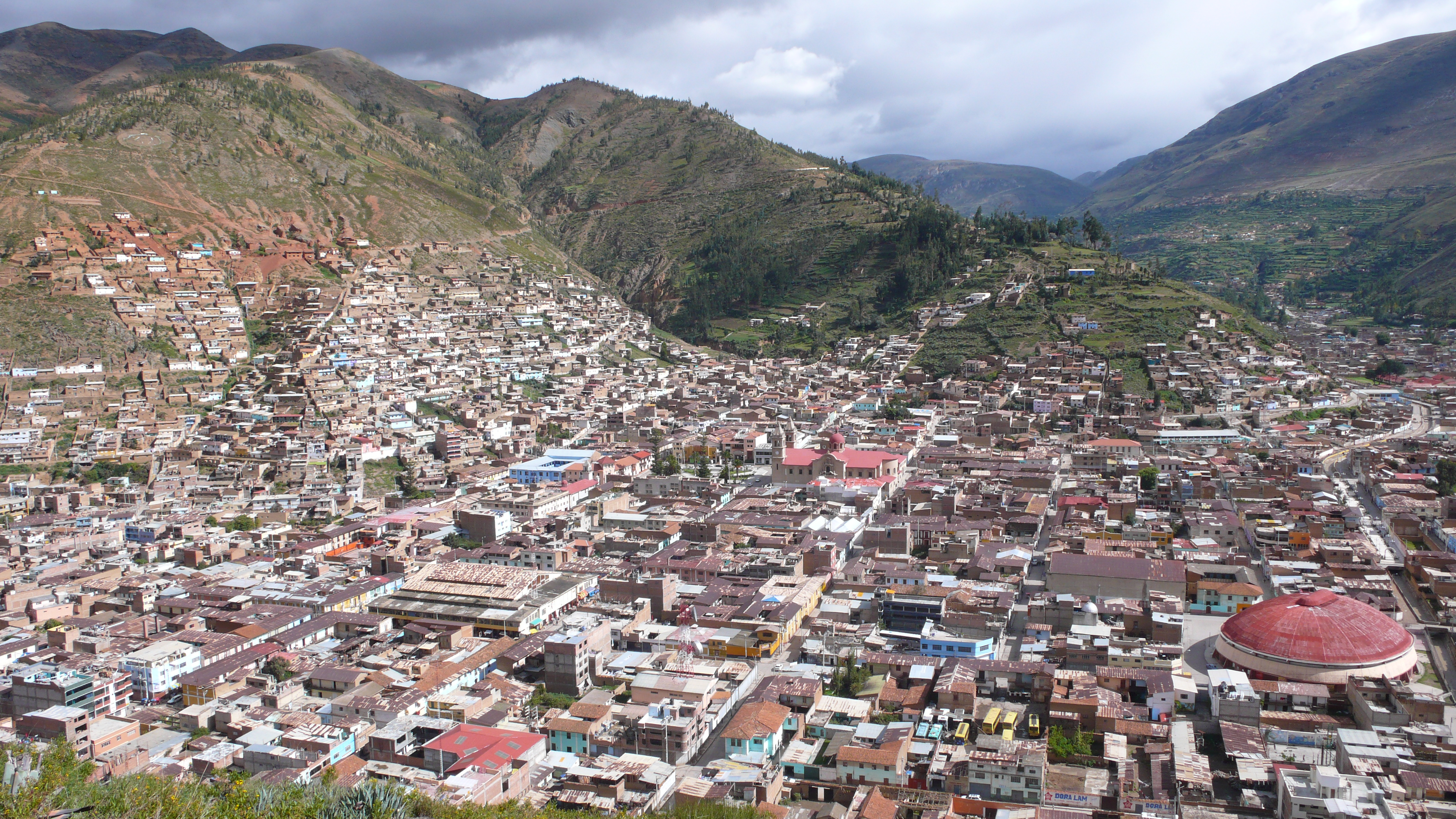 View to the city of Tarma (Junín), Peru. Expansion of urban area shown.